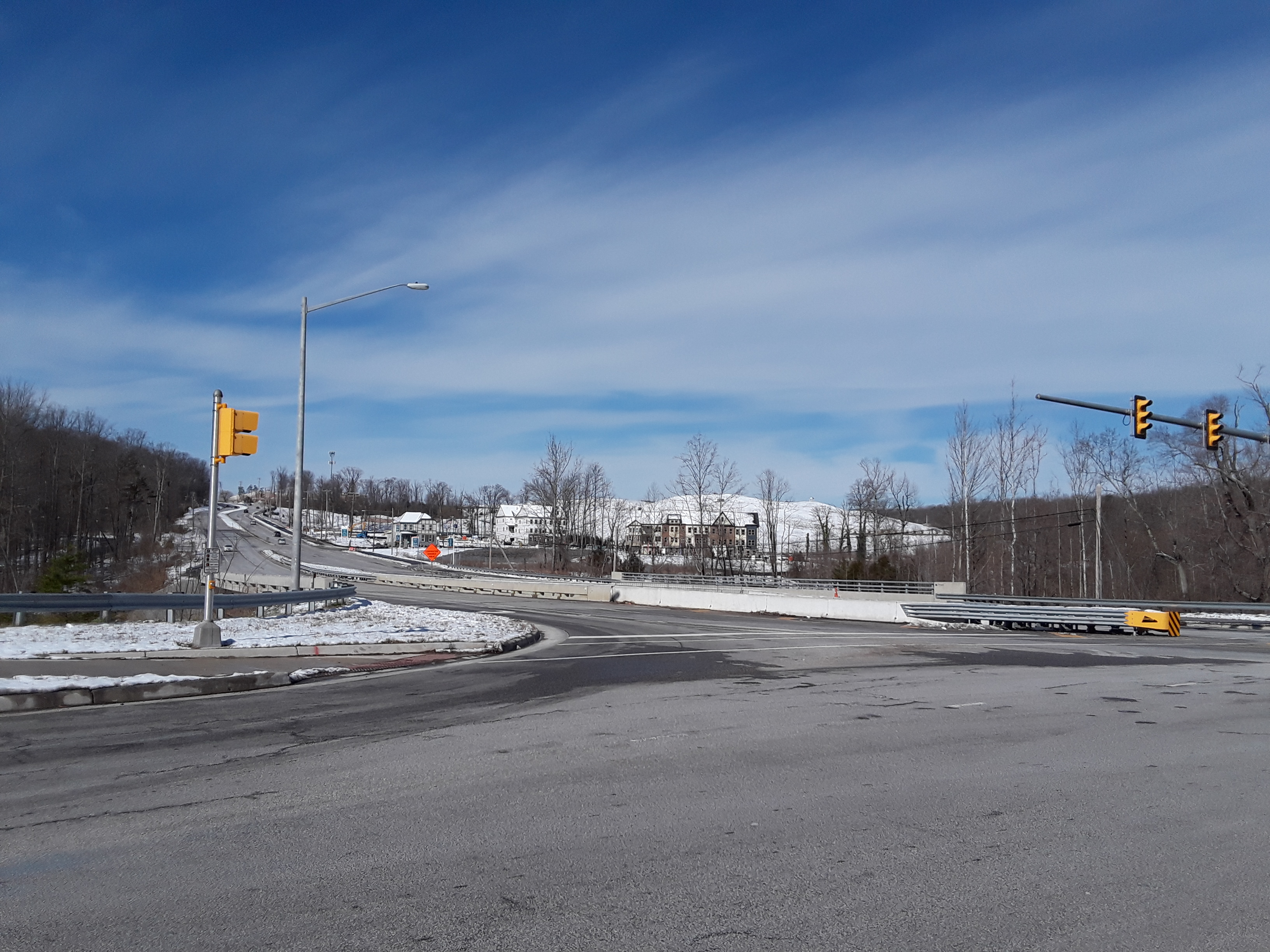 Intersection of Telegraph Road (SR 611) and Jeff Todd Way the day after the March, 21, 2018 nor'easter that hit the DC area